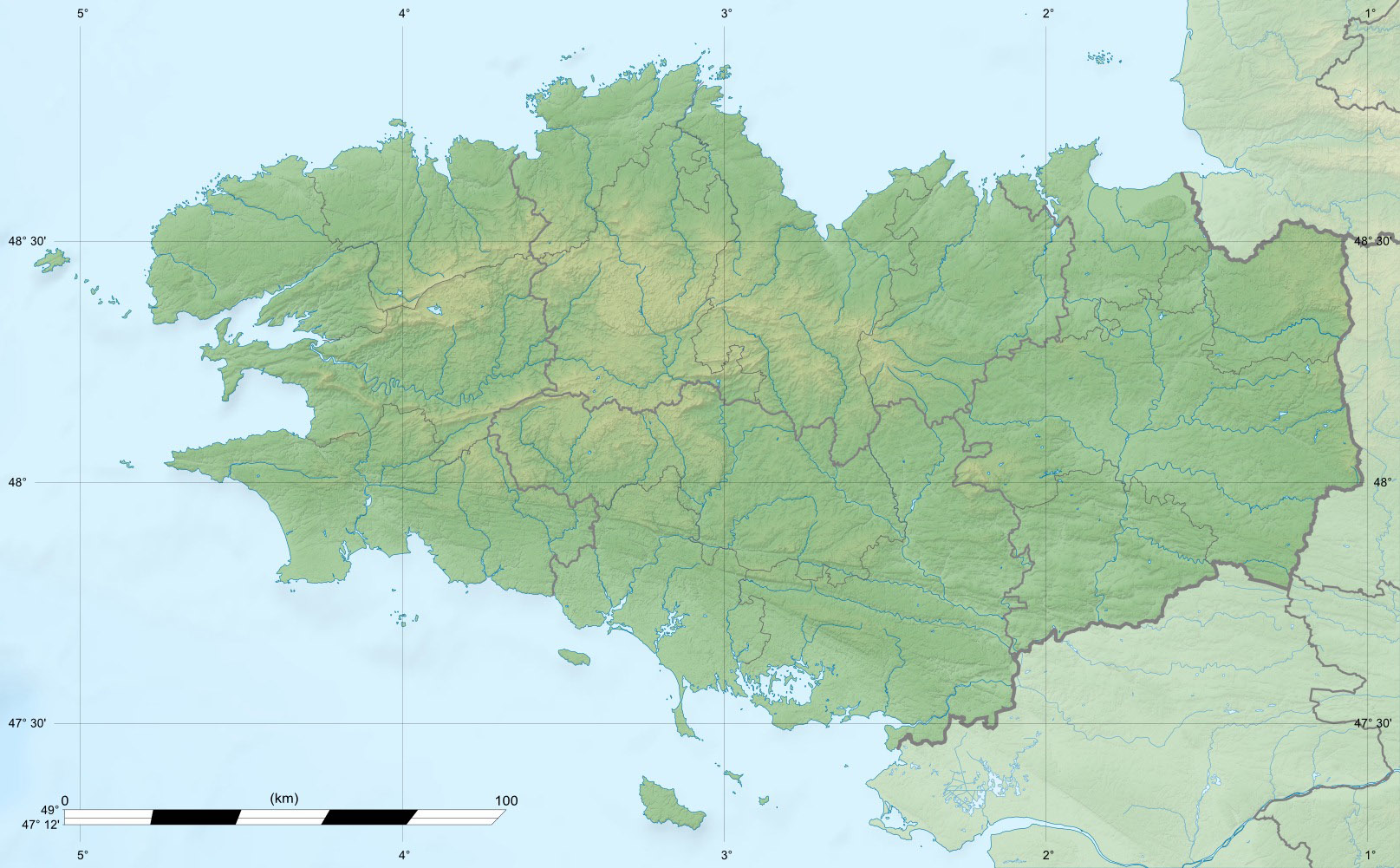 Blank physical map of the region of Bretagne, France, for geo-location purpose, with distinct boundaries for regions, departments and arrondissements.